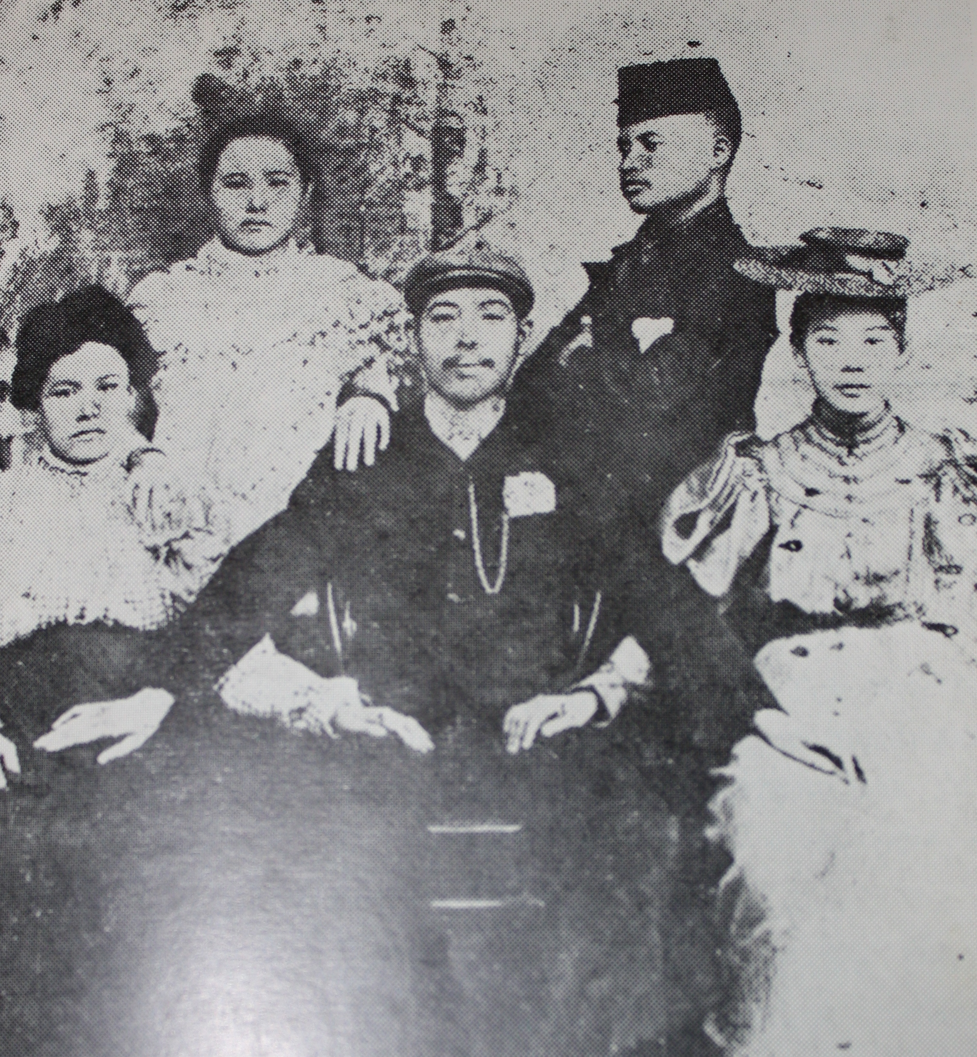 Tuan Lebeh, the crown prince of Reman Sultanate, in the middle. (image taken June 1899.)